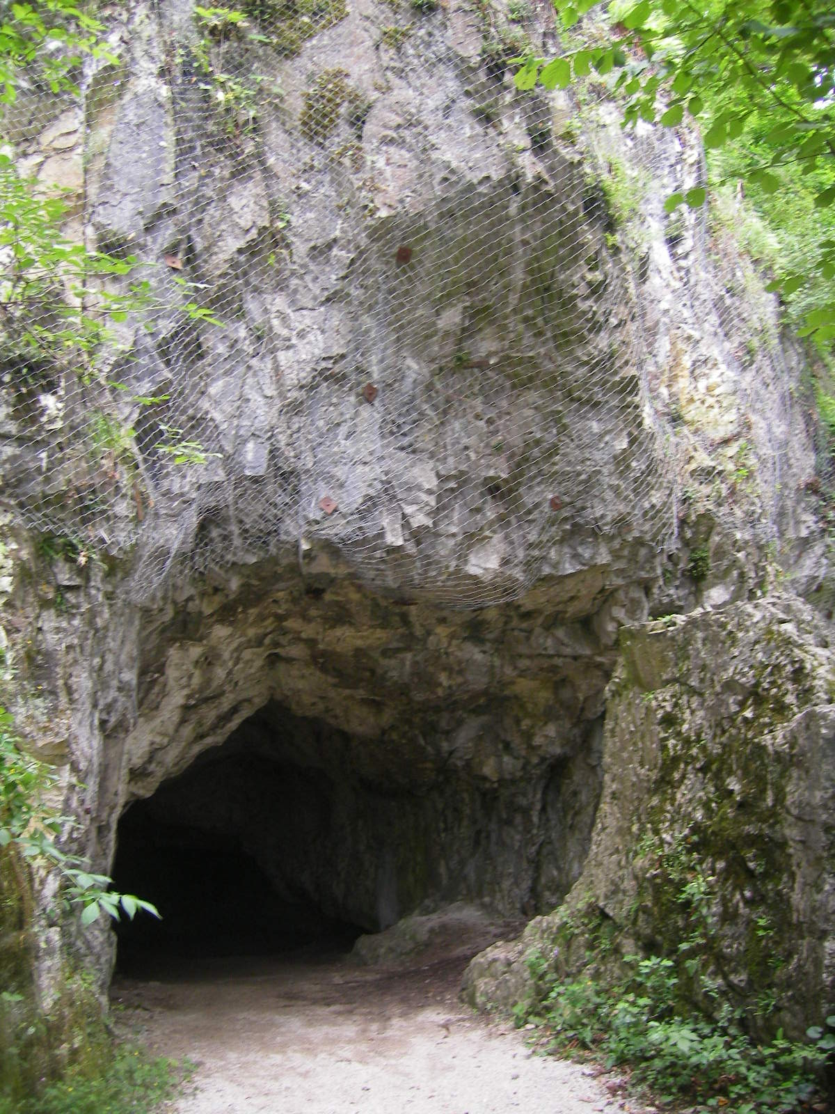 Jasov - cave